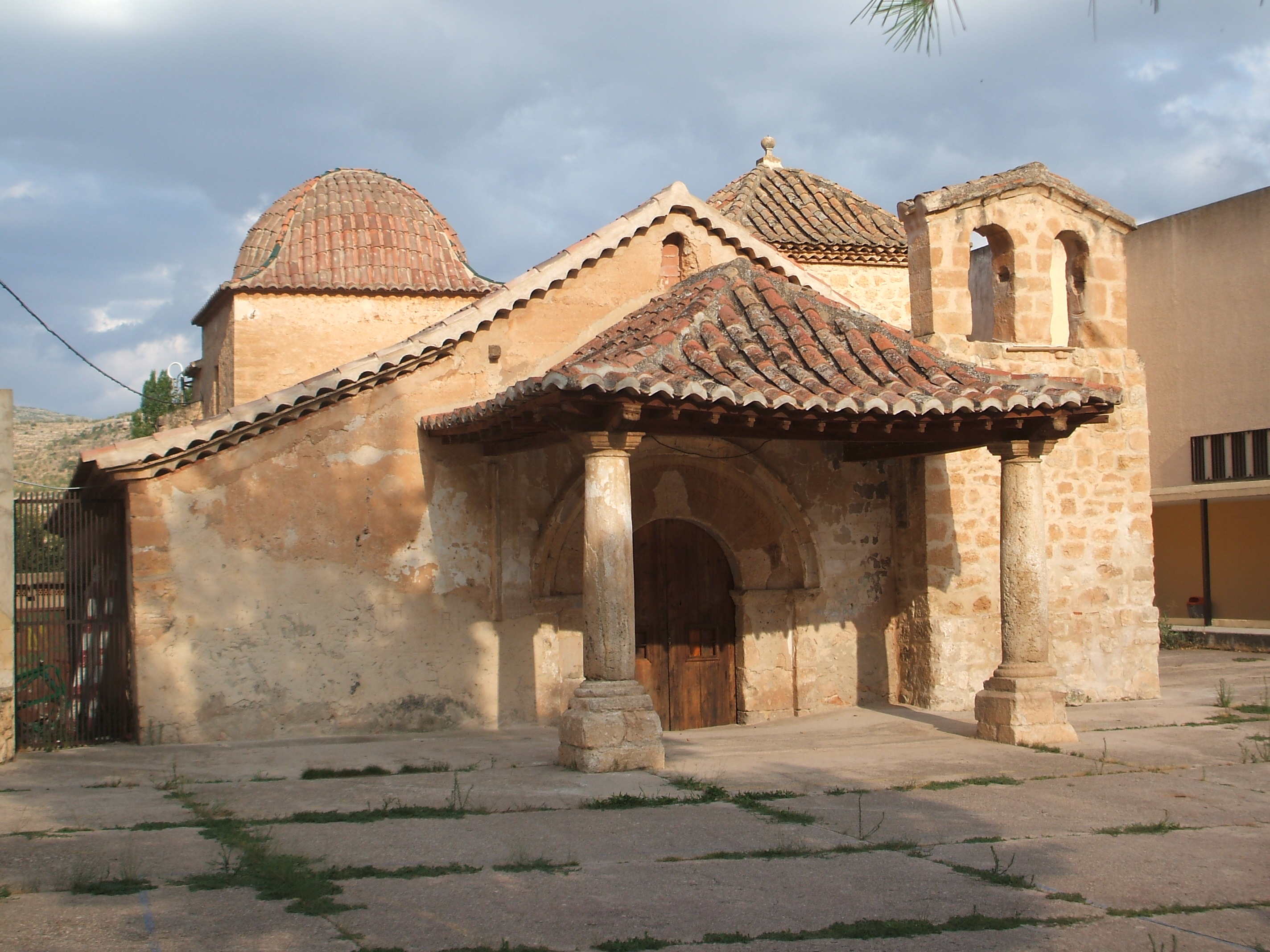 Church of Nuestra Señora de la Huerta, 14th century, in the town of Ademuz of the Valencian Community—Land of Valencia, eastern Spain.